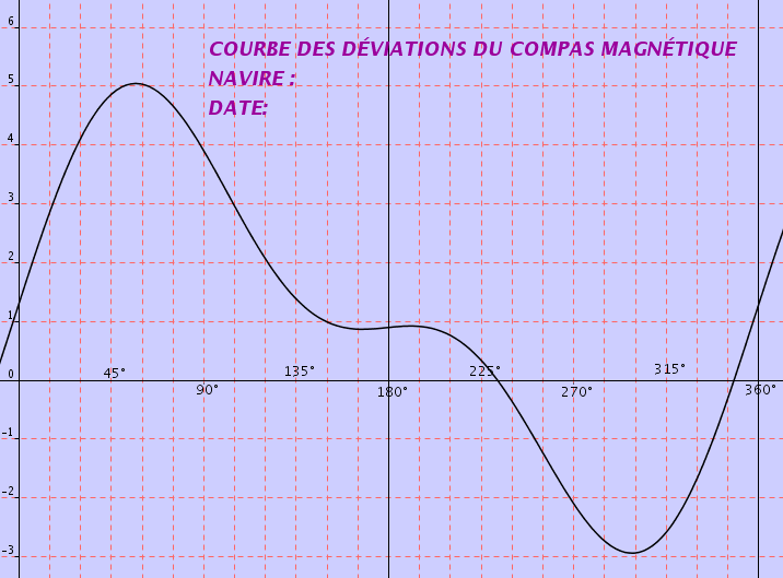 Typical deviation curve _ magnetic compass